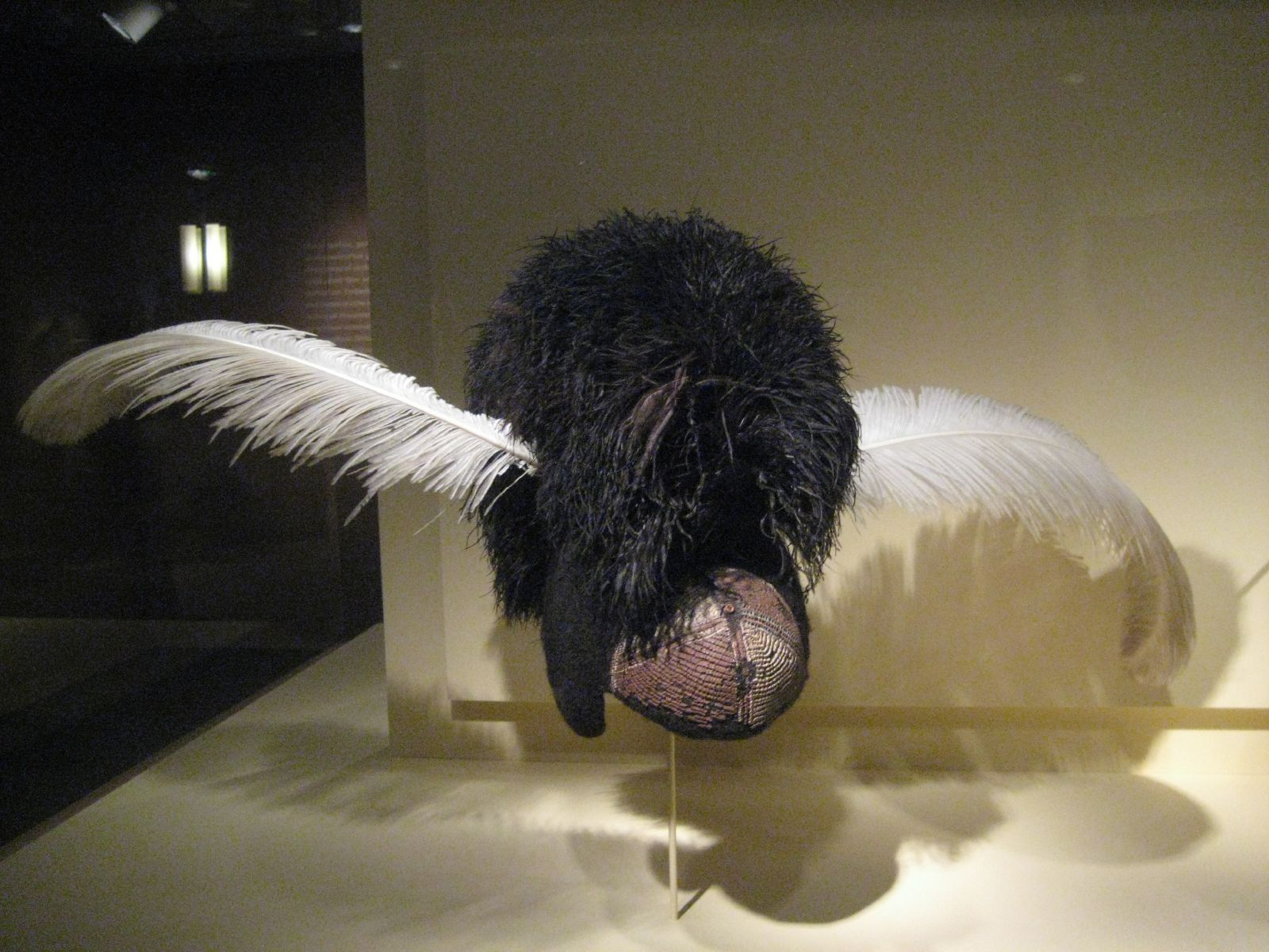 Man's Wig (Emedot) Karamojong peoples, Kenya and Uganda Mid- to late 20th century Hair, ostrich feathers, clay, metal and pigment (National Museum of African Art)